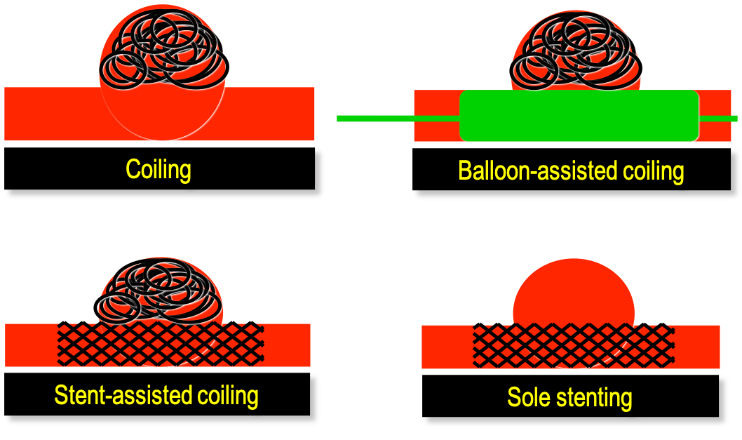 Different endovascular techniques to treat an intracranial aneurysm